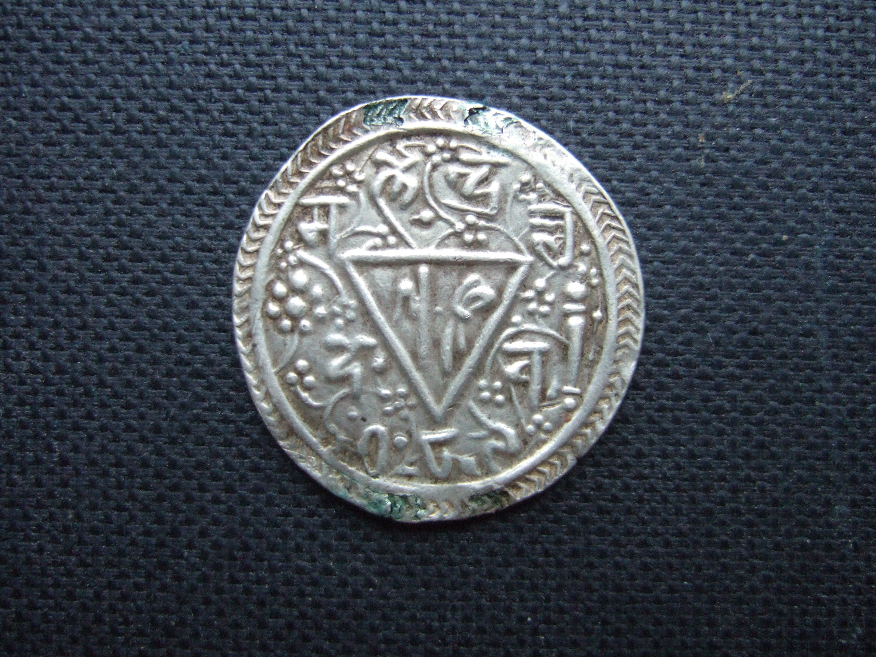 Silver Mohar of Prkash Malla (Kathmandu), reverse